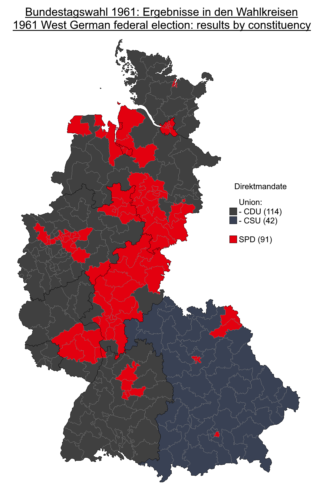 Results of the (West) German federal elections of 1961, showing direct seats won by party